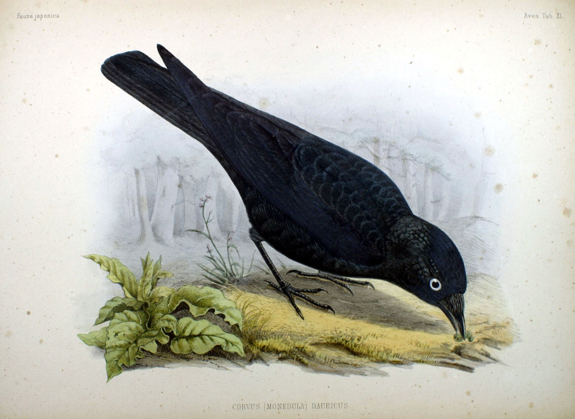 An illustration of an Daurian Jackdaw (Corvus (Monedula) dauricus = Corvus (Coeleus) dauuricus) from Fauna Japonica